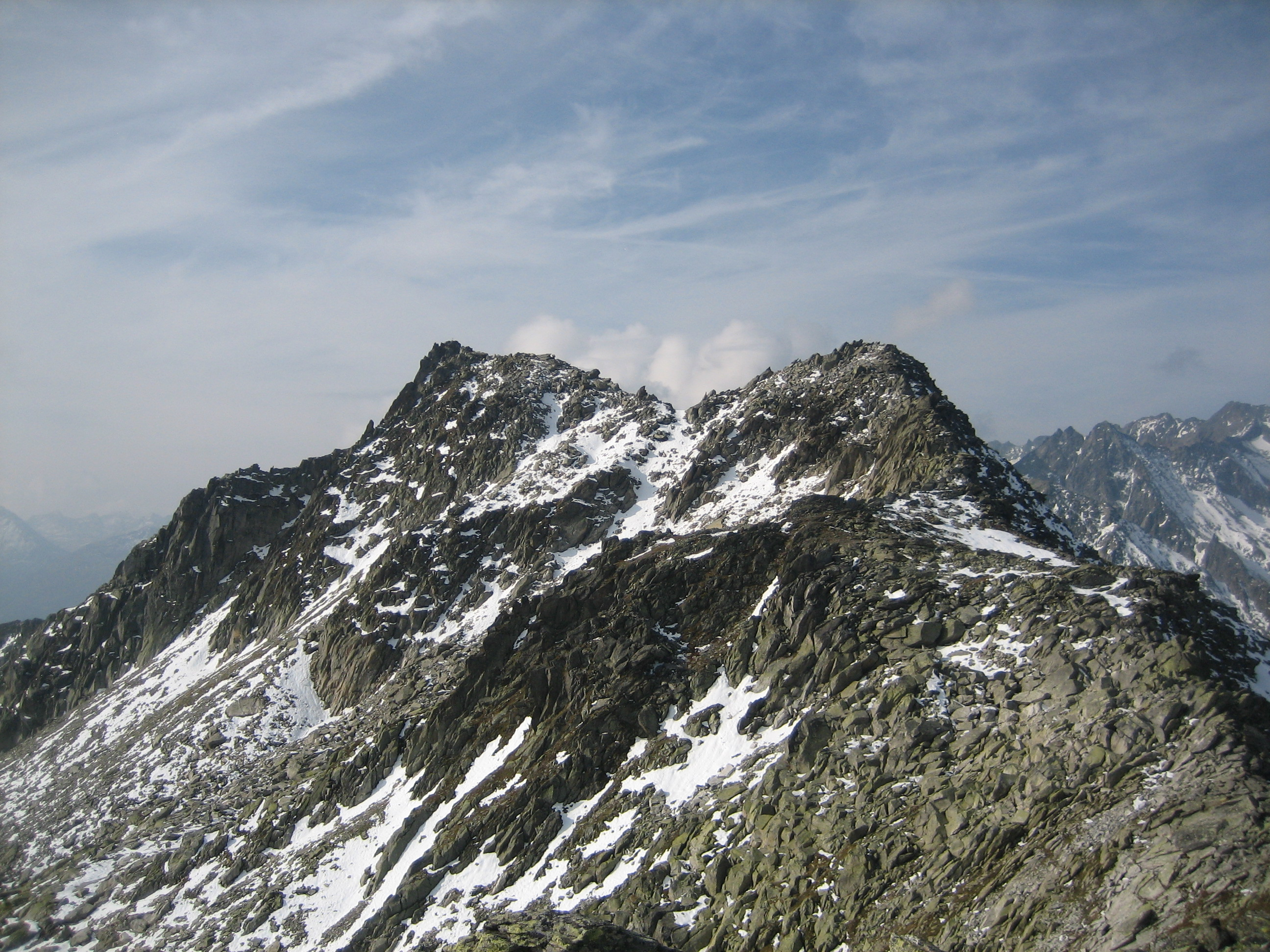 Two summits of Chrüzlistock, as seen from northeast, Silenen UR, Tujetsch GR, Swizterland Rumantsch: Las dus tschemmas digl Chrüzlistock, piglia se digl nordost, Silenen UR, Tujetsch GR, Svizra